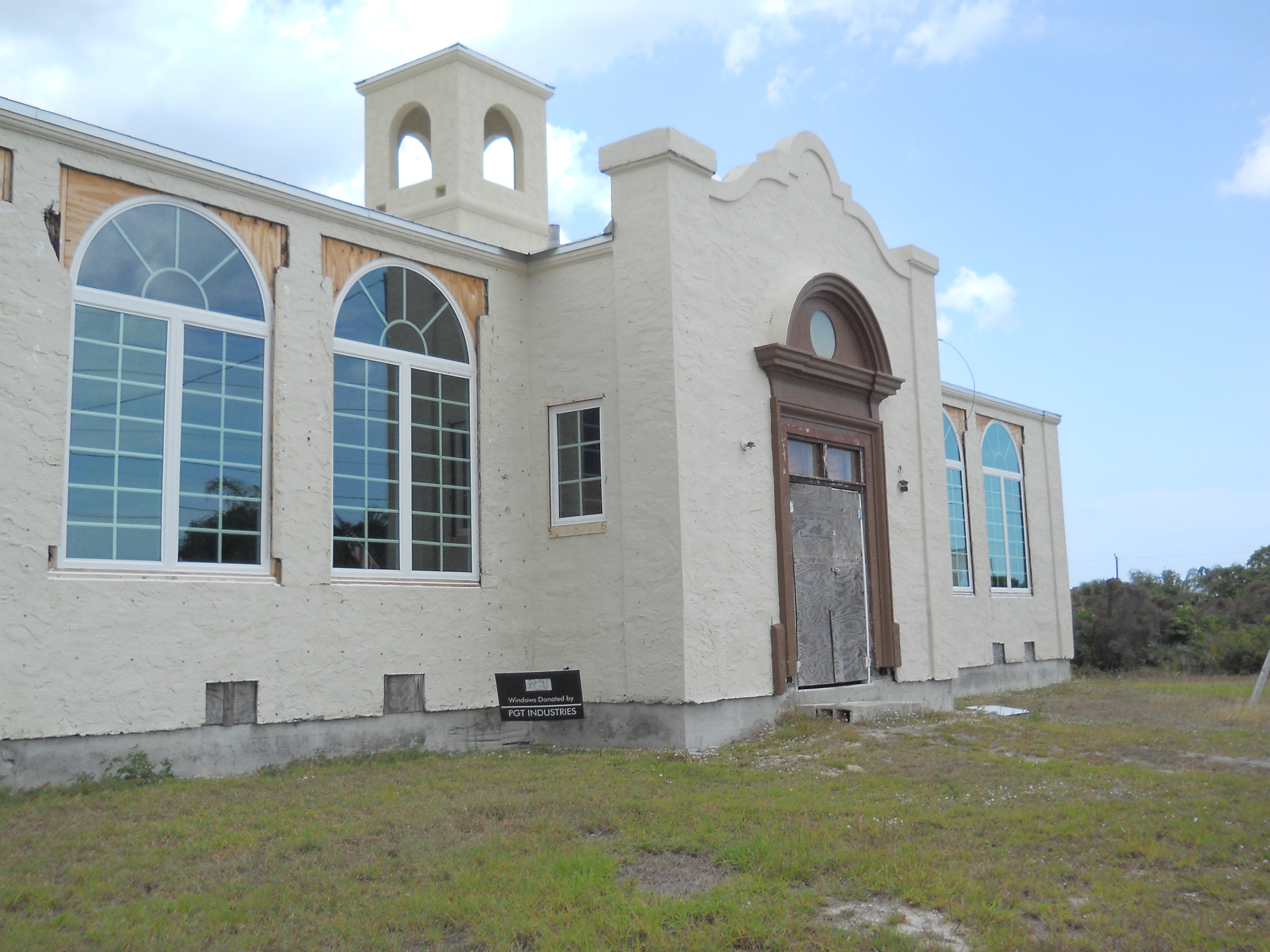 Apollo School, 9141 SE Apollo Street, Hobe Sound, Martin County, Florida: View from south west